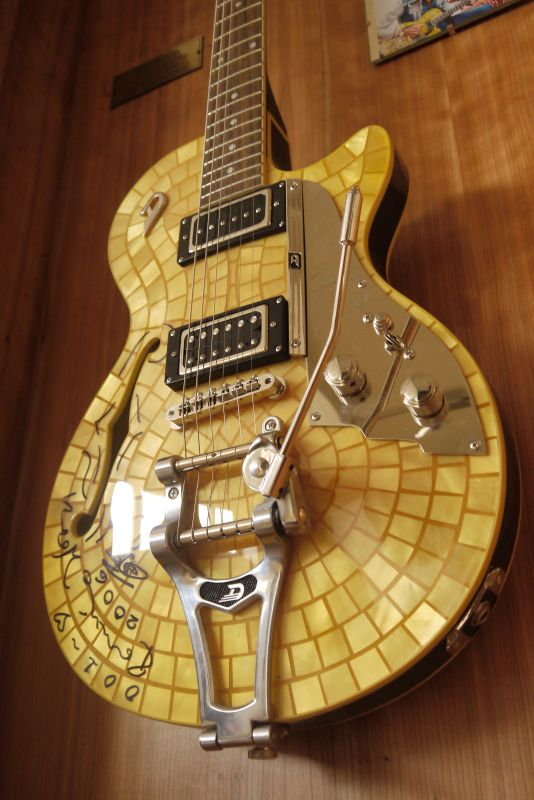 Duesenberg Ron Wood Signature